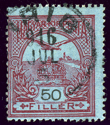 Kingdom of Hungary, 50 fillér stamp, lake on blue paper (SG184) issue 1913, cancelled IRIG (Temes Banat, Serbia) in 1916.